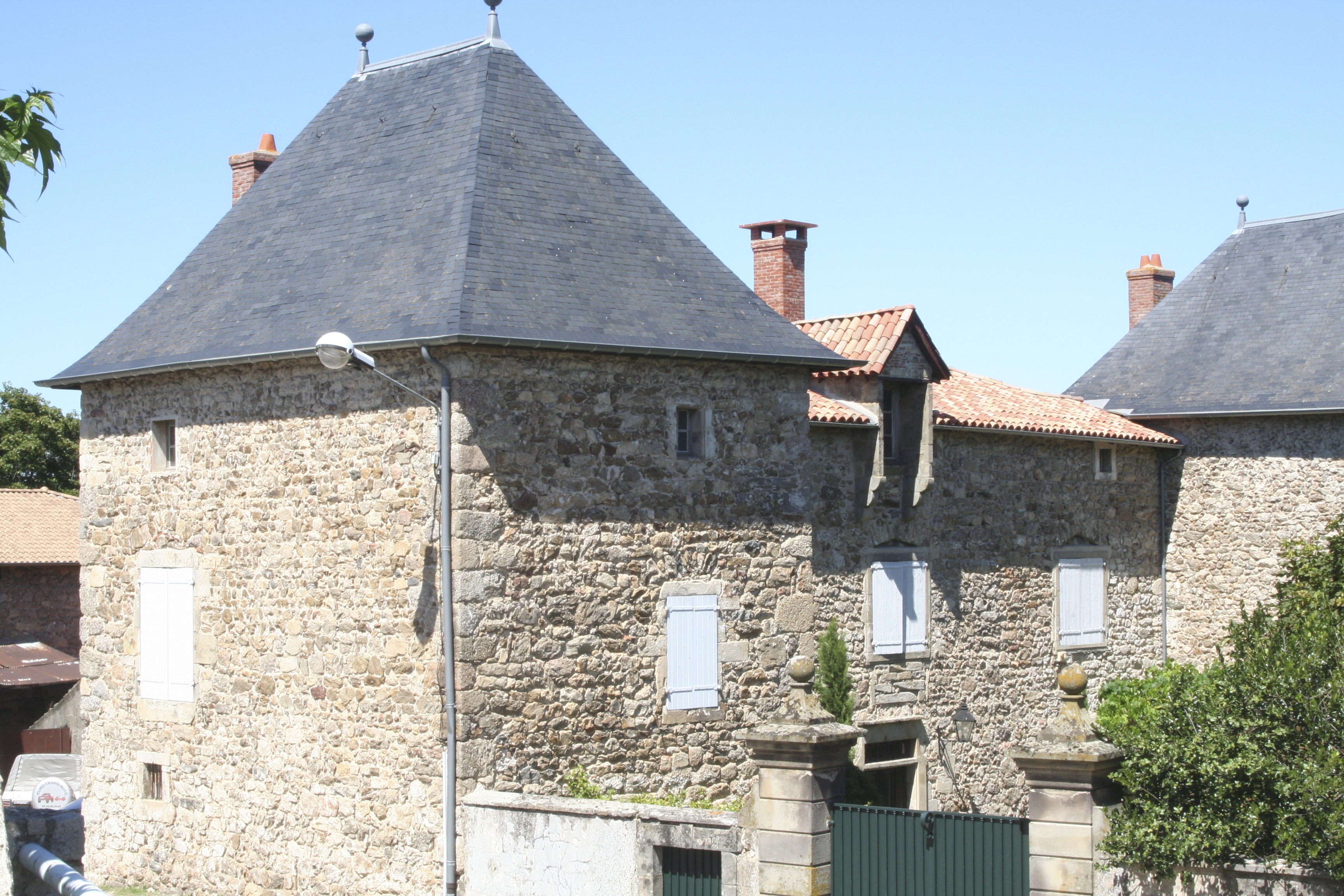 Castle of Saint Sylvestre